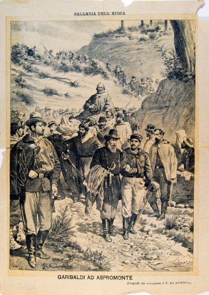 Garibaldi blessed after Aspromonte